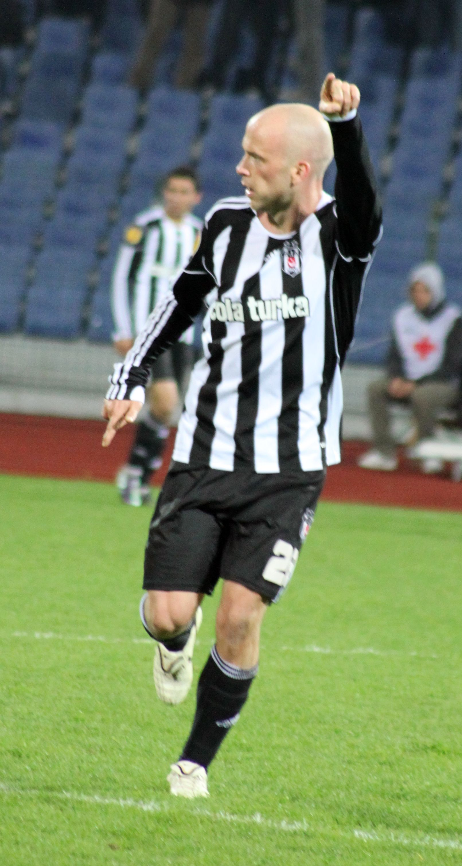 Fabian Ernst (born 30 May 1979 in Hannover) is a German footballer who plays for Beşiktaş J.K. as a midfielder.